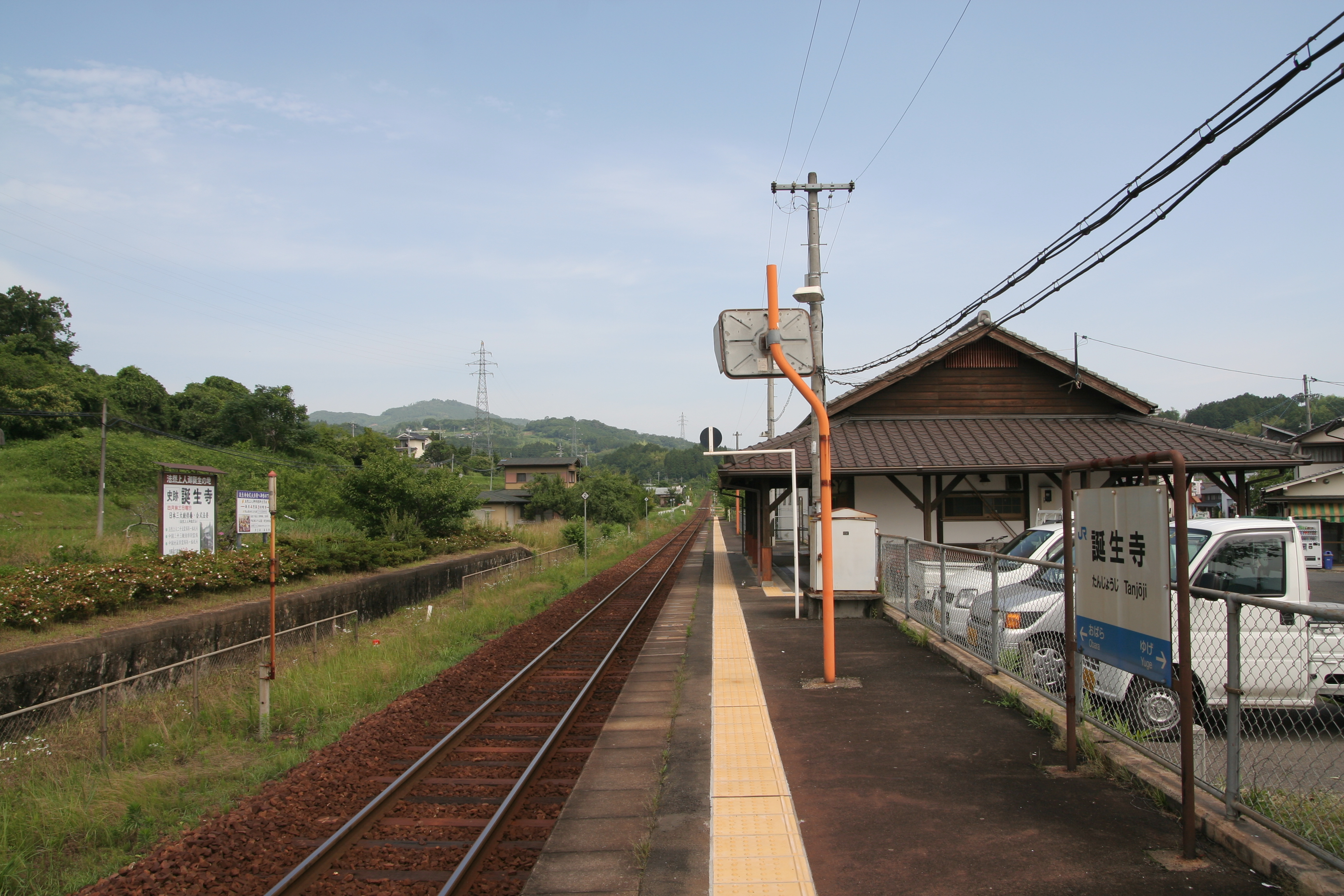 West Japan Railway Company Tsuyama Line tanjyoji station enclosure